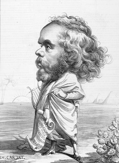 French composer Félicien David (1810-1876) by Étienne Carjat (1828-1906).